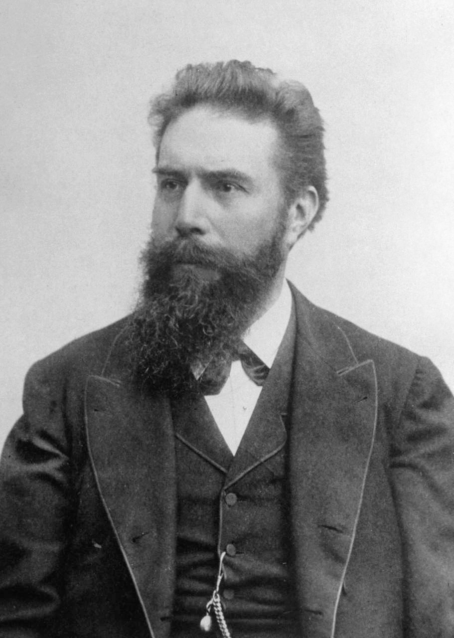 Photo of Wilhelm Conrad Röntgen. Cleaned up version of